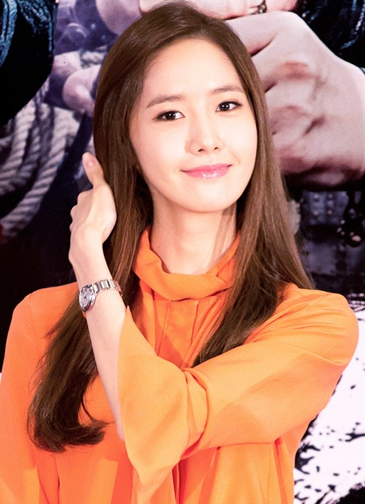 Yoona at "Pirates" VIP premiere, 29 July 2014.